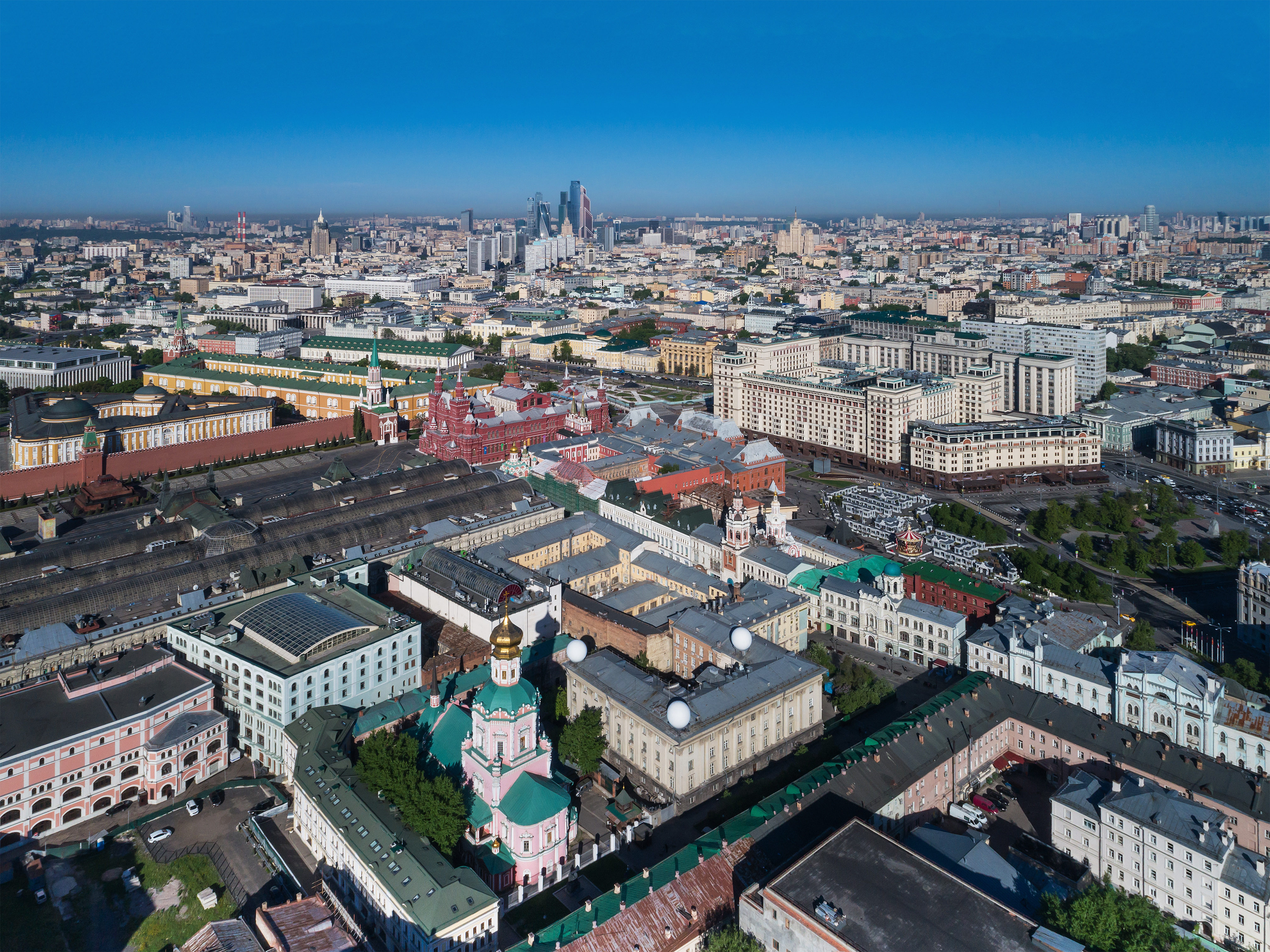 Aerial photo near Red Square and Kitay-Gorod in Moscow (Russia).